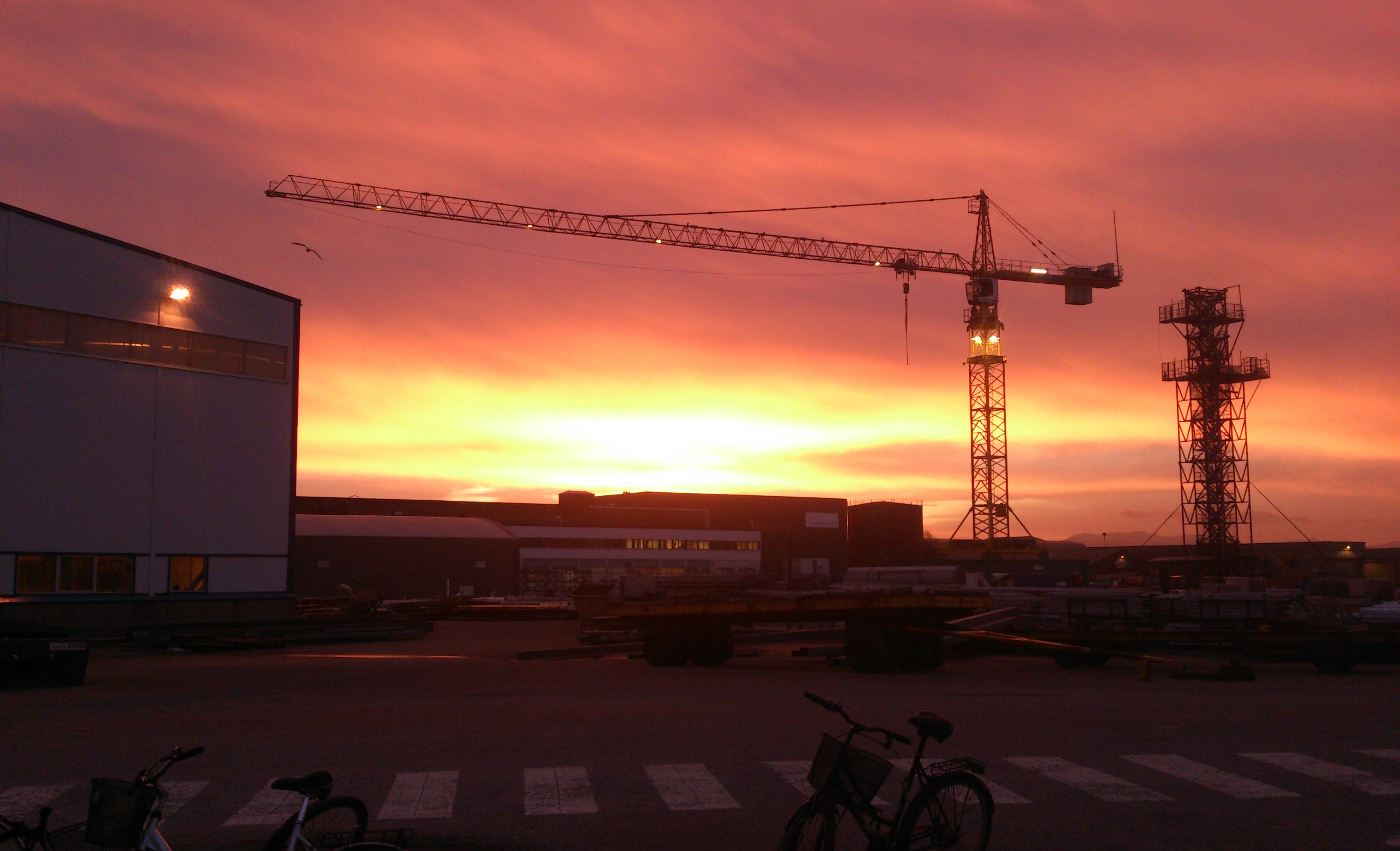 Sunrise at Kvaerner Stord yard